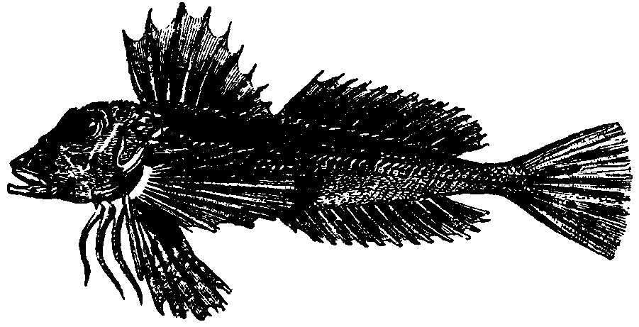 Drawing of a gurnard fish, in this case Trigla pleuracanthica (=Lepidotrigla pleuracanthica)